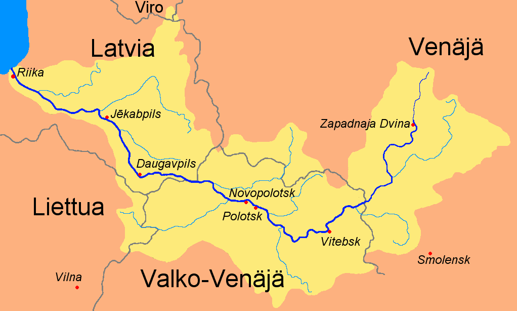 Map of Daugava river / catchment in Finnish (originally in Russian).